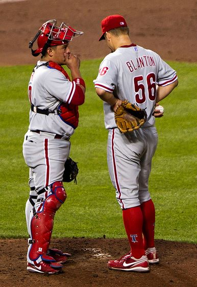 Joe Blanton and Carlos Ruiz confer in a game against the Baltimore Orioles